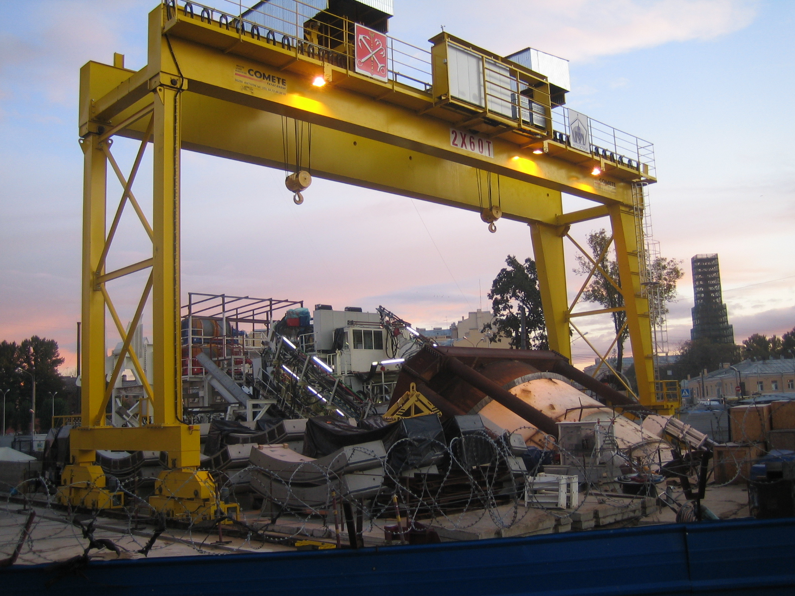 Digging inclined course for “Obvodnij kanal” station of the Saint Petersburg Metro.